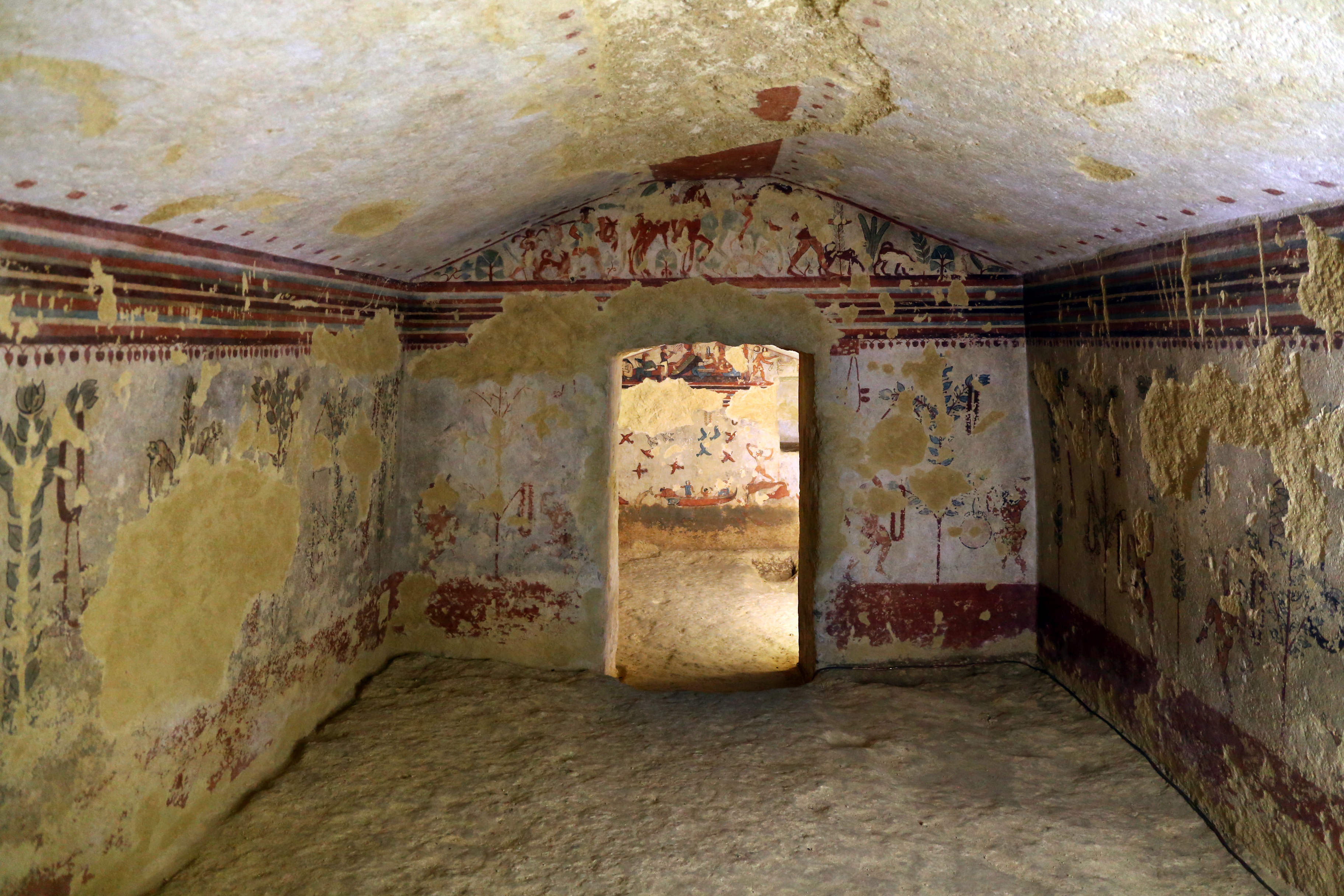 Necropoli dei Monterozzi (Tarquinia)